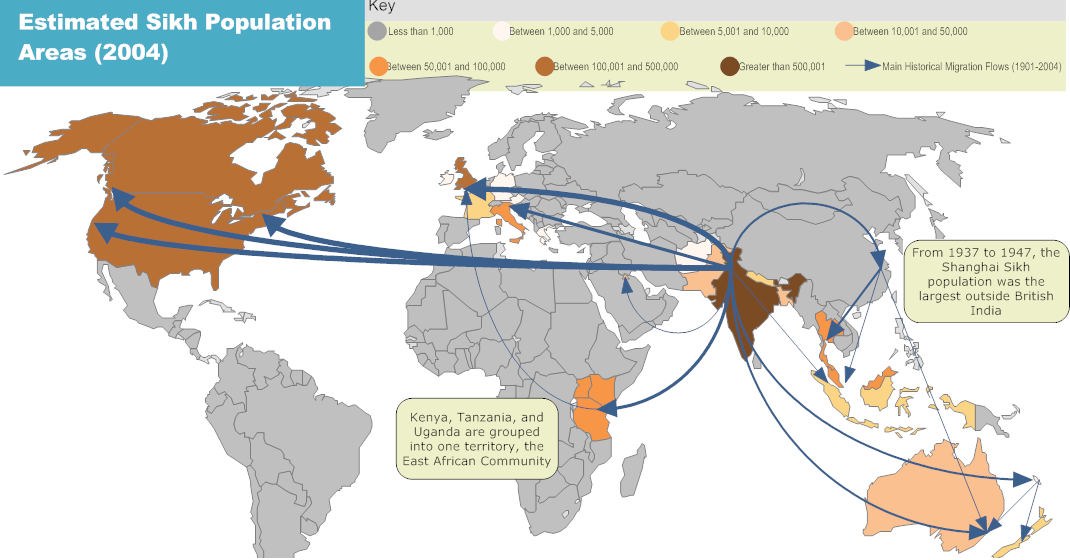 Estimated World Sikh Population Areas(2004) with Migratory flows. Chart constructed using data by Johnson and Barrett(2004). Quantifying alternate futures of religion and religions by Todd M. Johnson and David B. Barrett (2004). Refer to Table 1. Global adherents of the world’s 18 major distinct religions, AD 1900–2025.